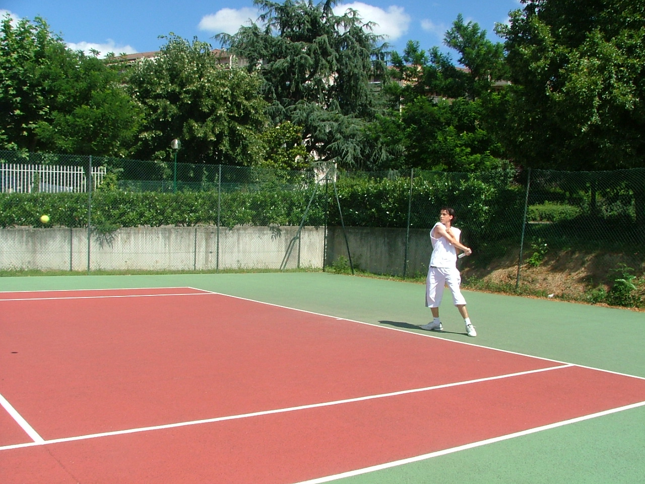 Tennis played in Sathonay-Camp